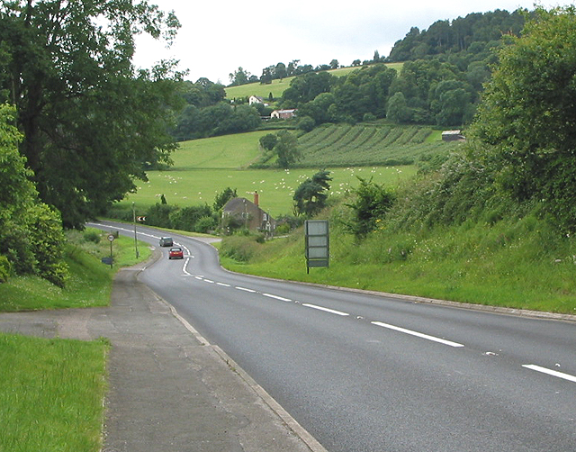 A4136 to Monmouth The start of a road through some lovely countryside.